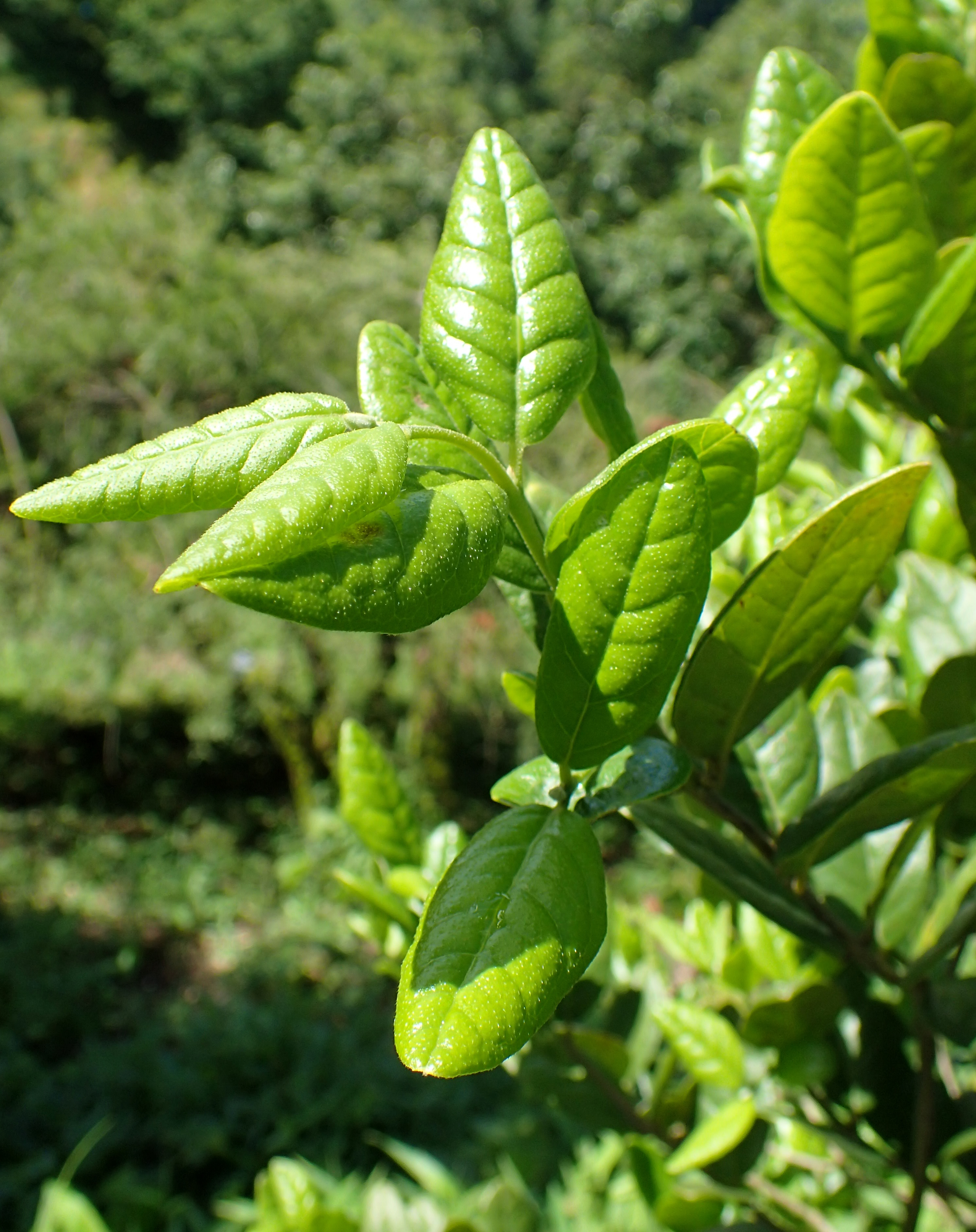 Peumus boldus in botanical garden in Batumi